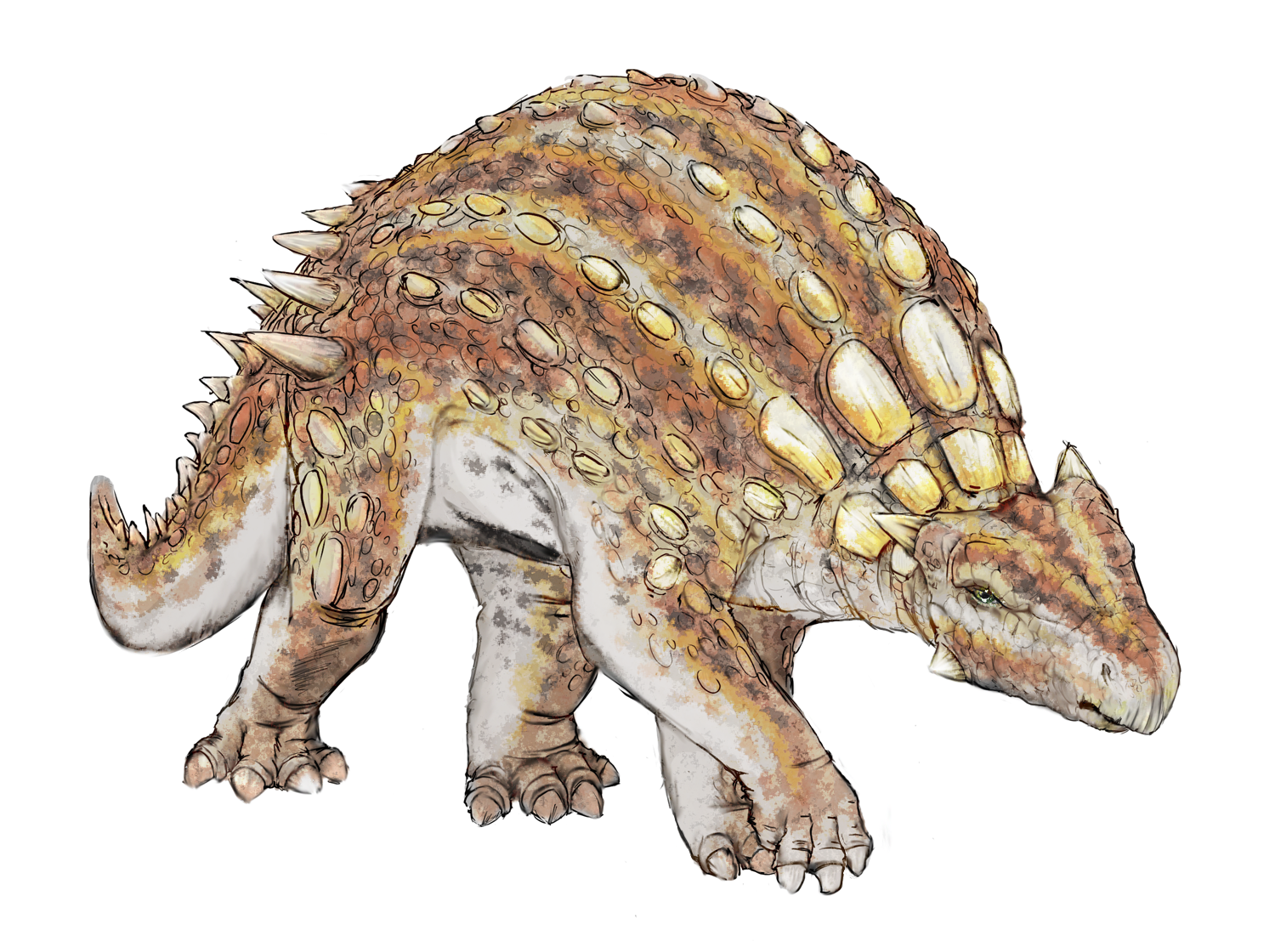 Ilustration of a Minmi paravertebra (mainly based on a specimen now referred to Kunbarrasaurus). As Minmi is known from very fragmentary remains, and because this restoration does not match Kunbarrasaurus entirely, it can still be used to illustrate Minmi.